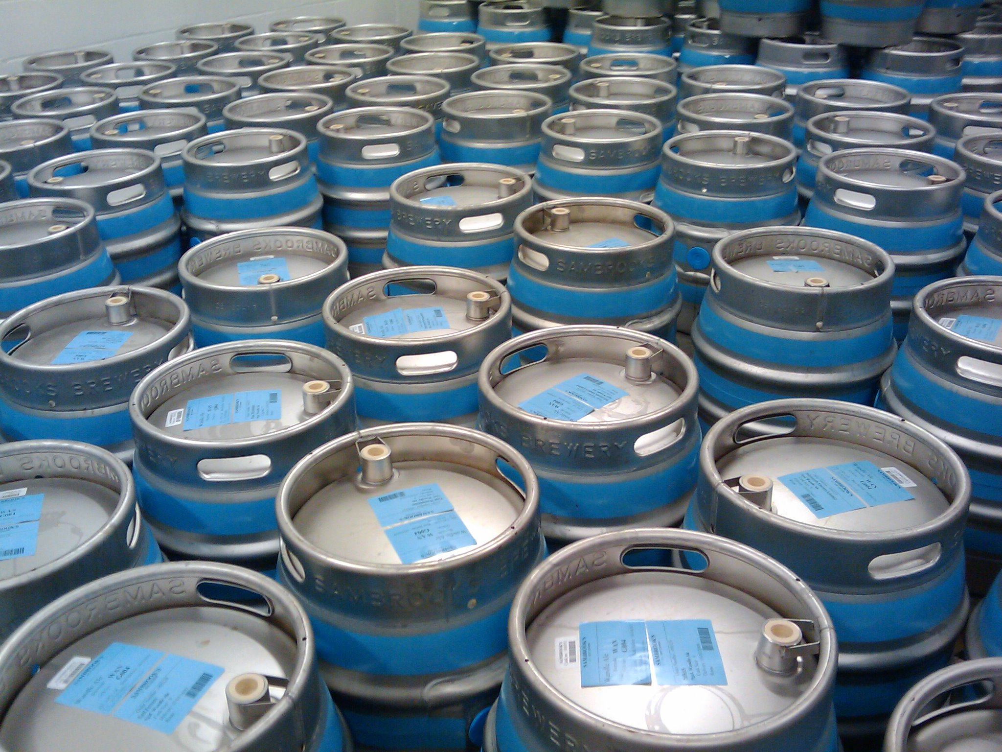 Beer barrels galore. As taken at Sambrooks Brewery, UK. Other information Photo by Flickr user "almost witty"